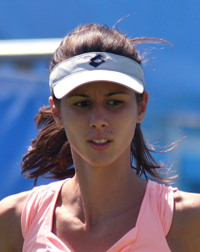 Bulgarian tennis player Tsvetana Pironkova at 2011 AEGON International.